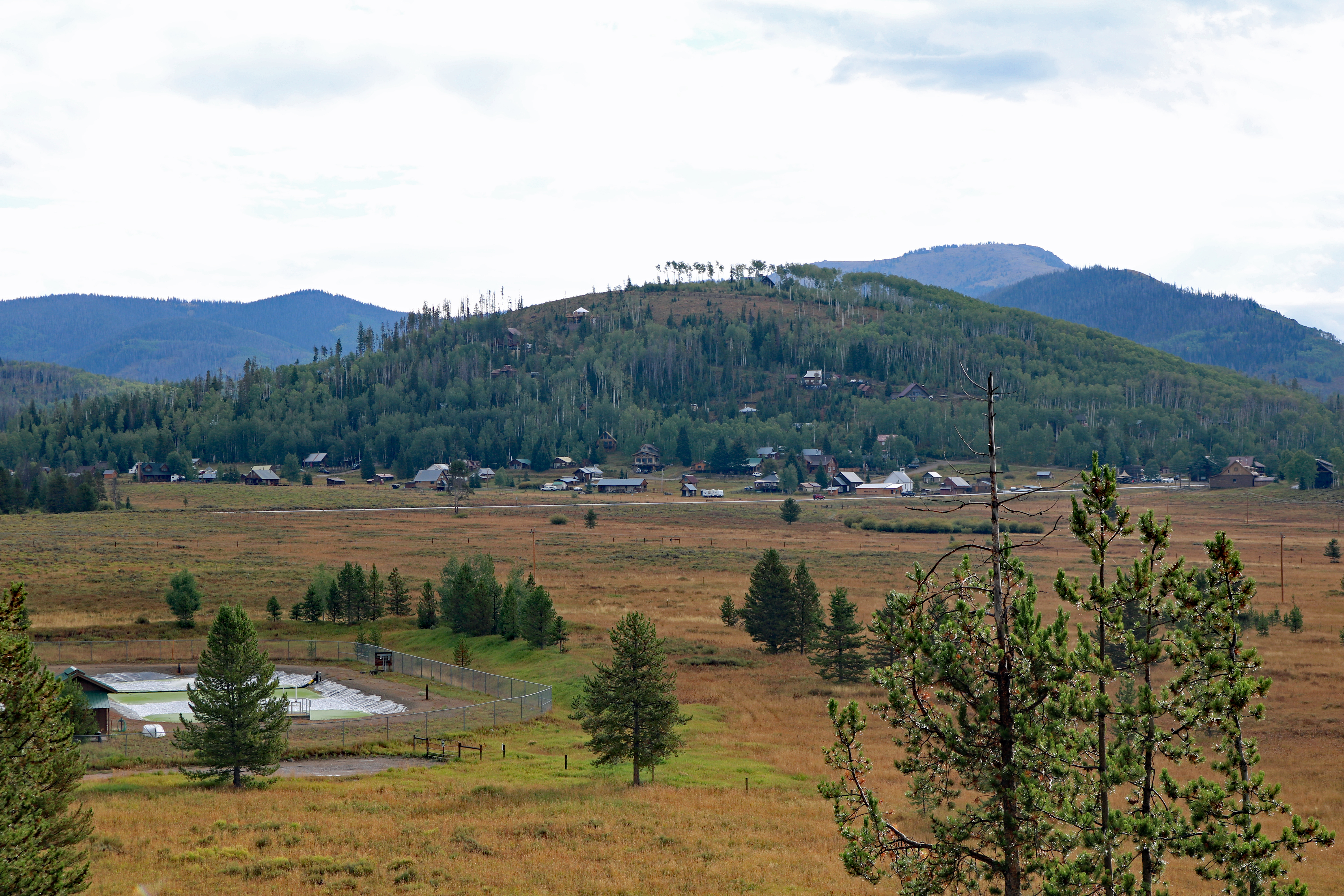 Hahns Peak Village, an unincorporated community in Routt County Colorado. The road in the picture is Routt County Road 129. The eponymous Hahns Peak is not visible in the picture.